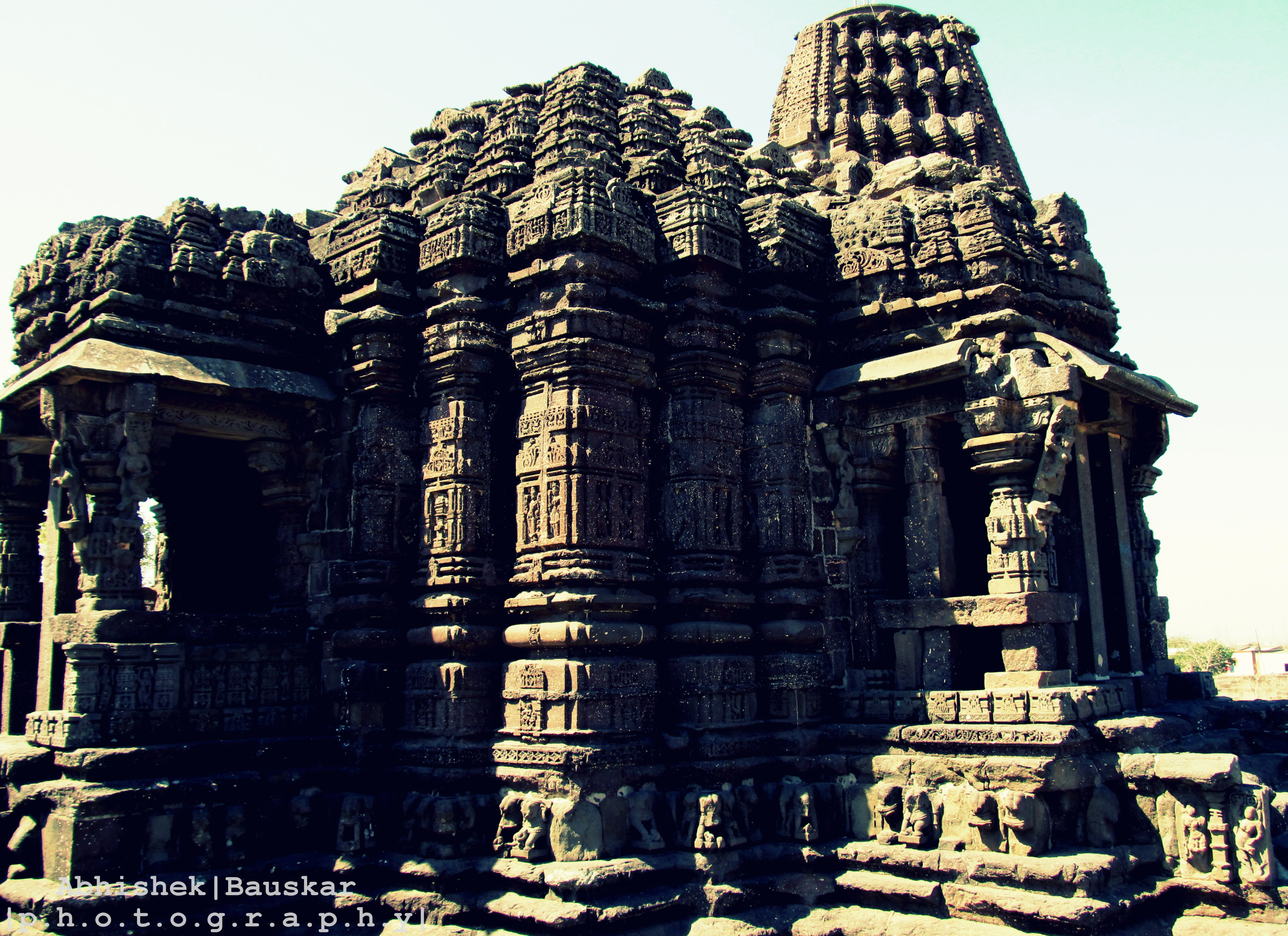 This is the 2000 years old temple at Sinnar near Nasik, Maharashtra, India...not 'built' but 'carved' in a single stone in the era of Govinddevrai Yadav...!!